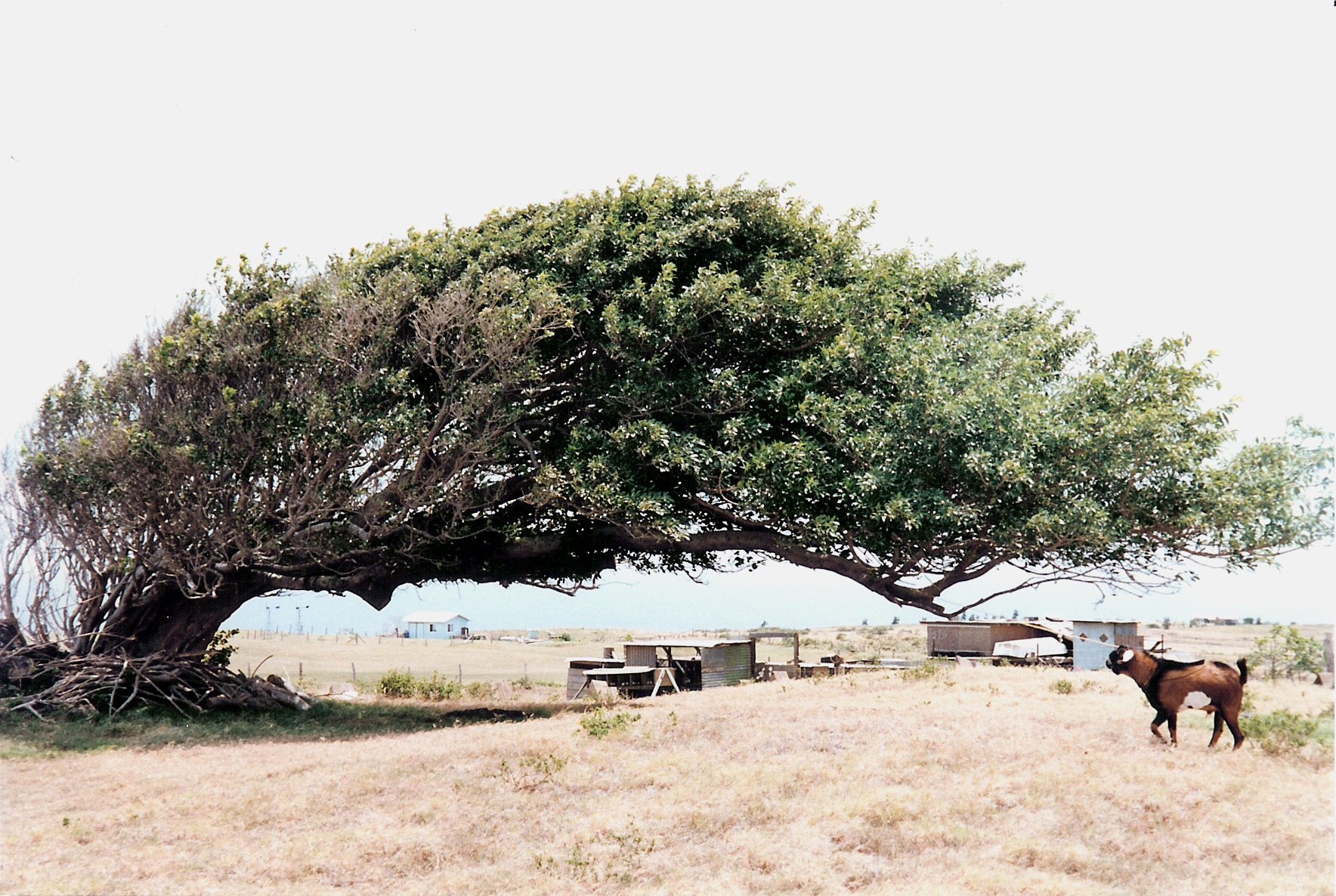 Tree with branches all growing in one direction due to strong winds. Taken at Ka Lae, Hawaii, USA